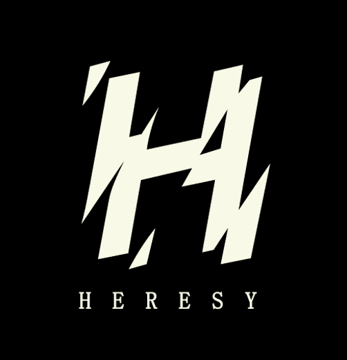 This is the logo of Heresy Records, an Irish independent record label founded by Eric Fraad in 2012.